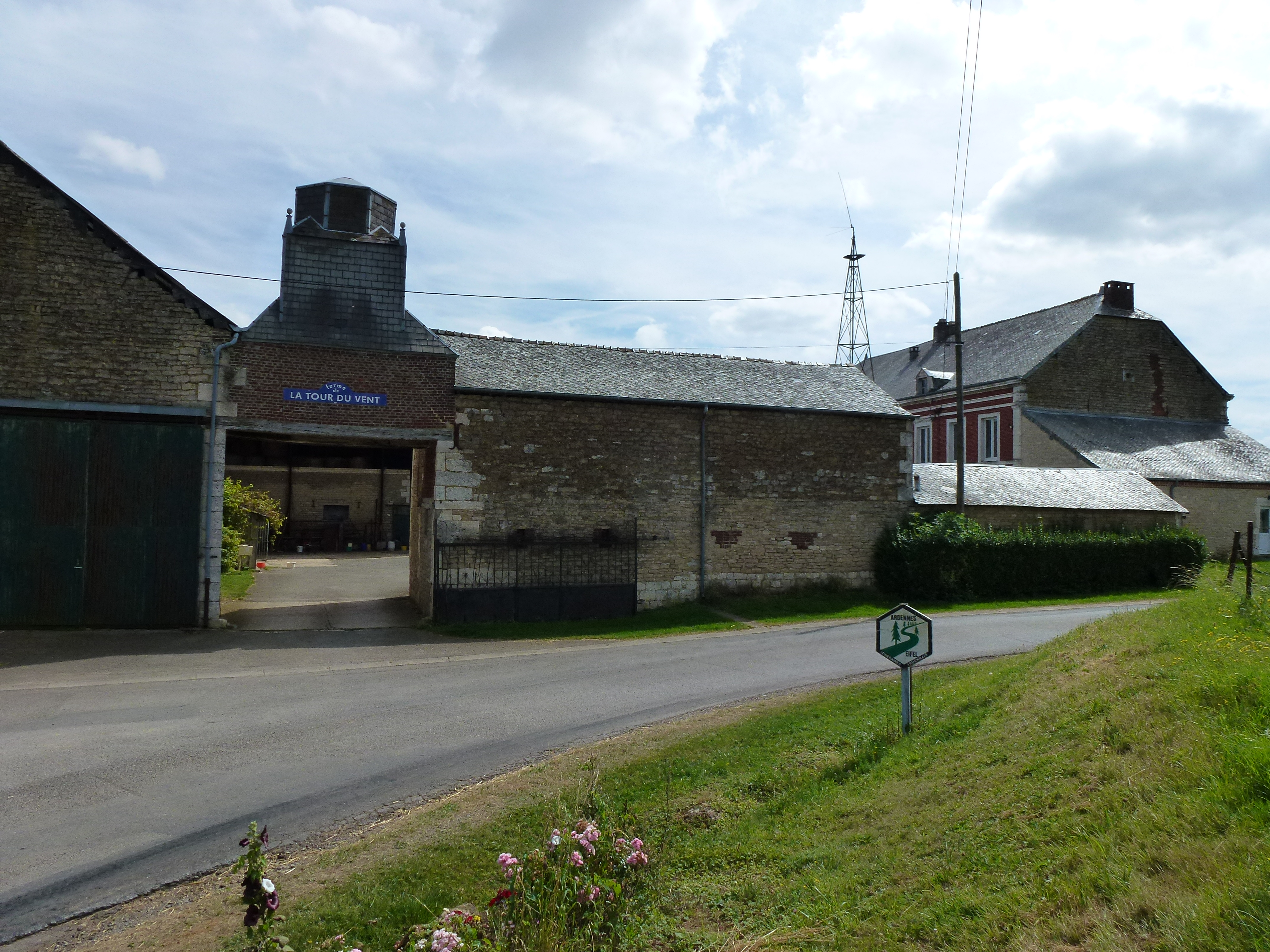 Auge (Ardennes) Ferme La tour du vent